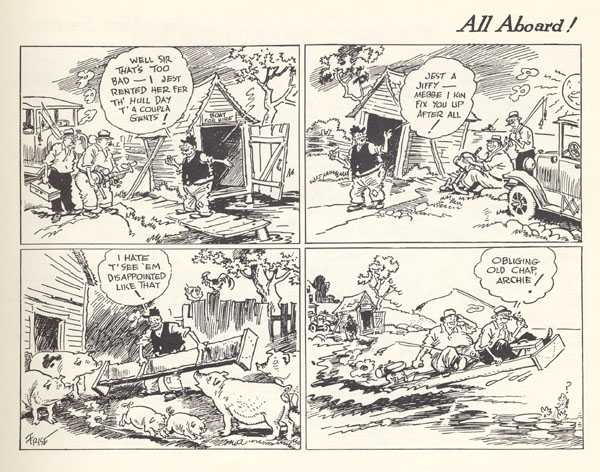 Undated Birdseye Center comic strip by Jimmy Frise (1891–1948)